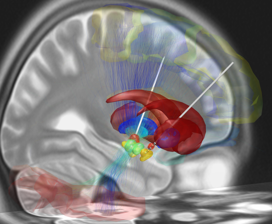 Depicted is a reconstruction of bihemispheric DBS electrodes that have been surgically placed into the most common target structure for treatment of Parkinson's Disease, the subthalamic nucleus (orange). Other subcortical structures include the red nucleus (green), the substantia nigra (yellow), the internal (cyan) and external (blue) pallidum and the striatum (red). A stimulation volume is modeled by applying 2V (at 1000Ω impedance) to the second-uppermost contact of the left electrode. Structural fibertracts traversing through this volume are visualized and cortical regions that they connect with the stimulation volume are selected from an automatic anatomical labeling atlas and visualized. Picture created using LEAD DBS software (